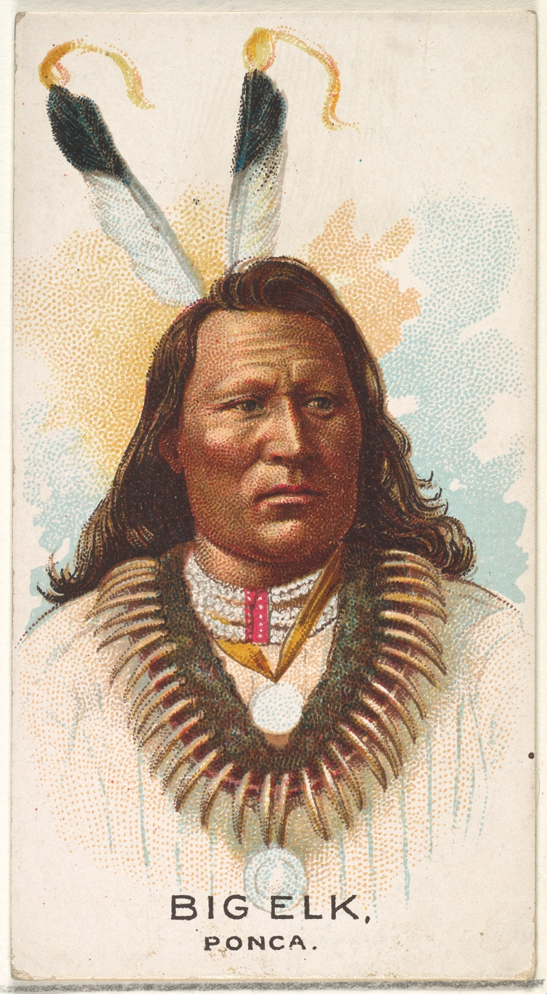 Print; Prints